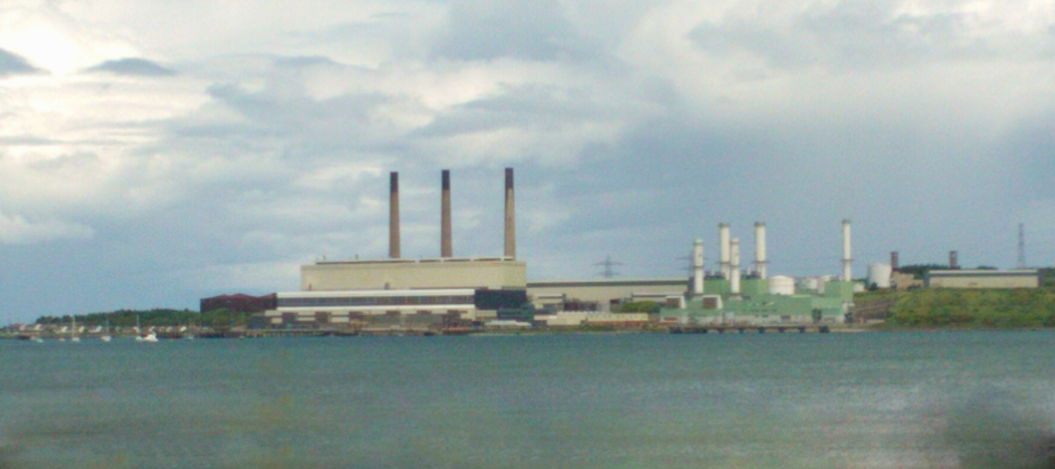 Ballylumford power station seen from the Glynn train halt.